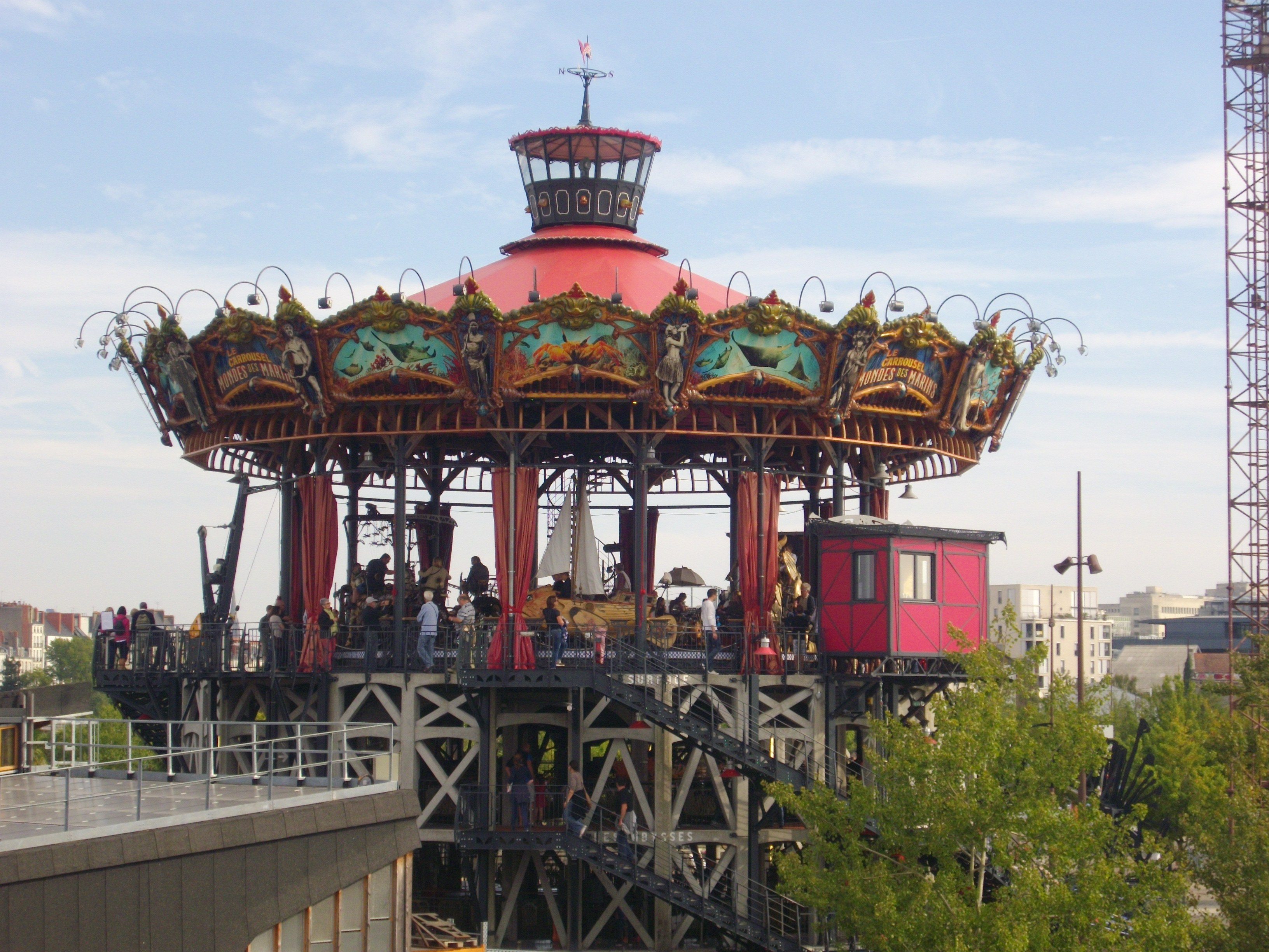 Sea world carrousel in Nantes (Loire-Atlantique, France)